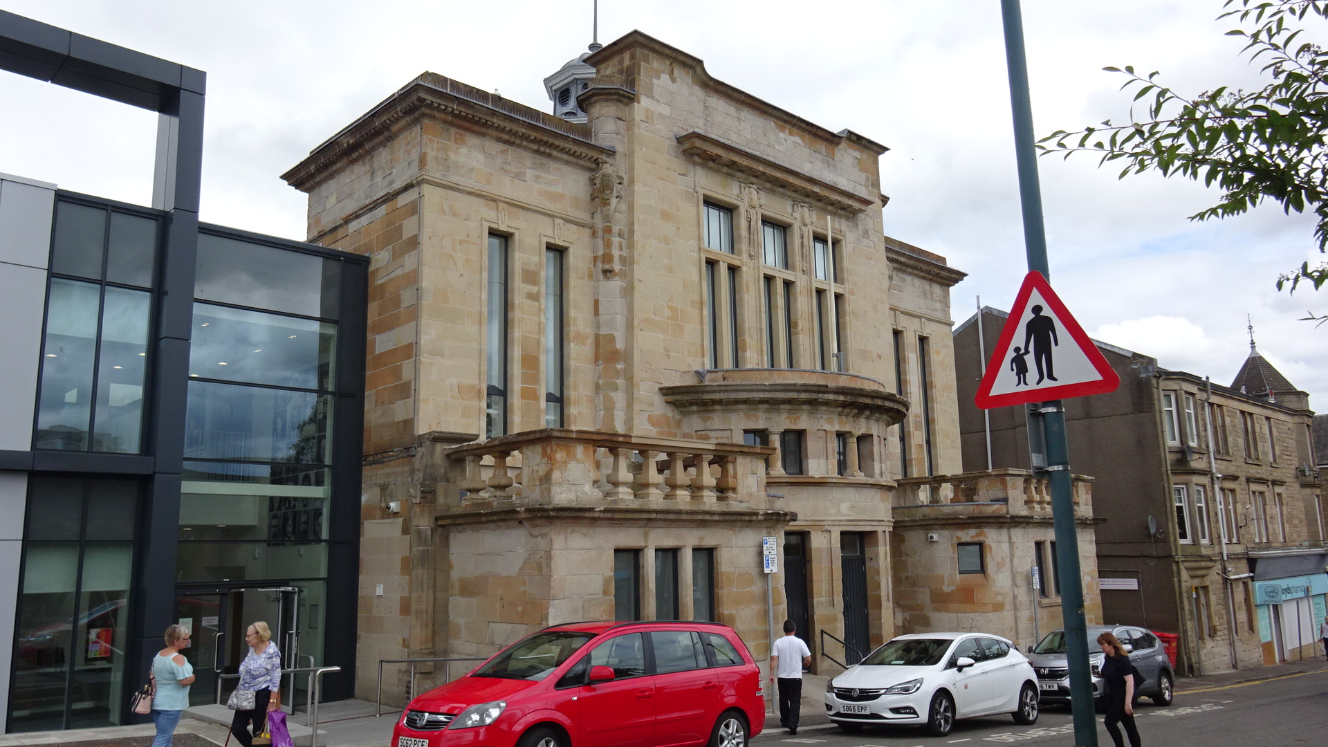 Kirkintilloch Town Hall frontage, East Dunbartonshire, Scotland. Now partly used as a Local Heritage Centre.